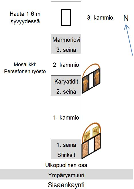 The tomb in Kasta hill Chambers and the location of important characteristics are indicated, derivative of File:Kasta tomb rooms gr.jpg